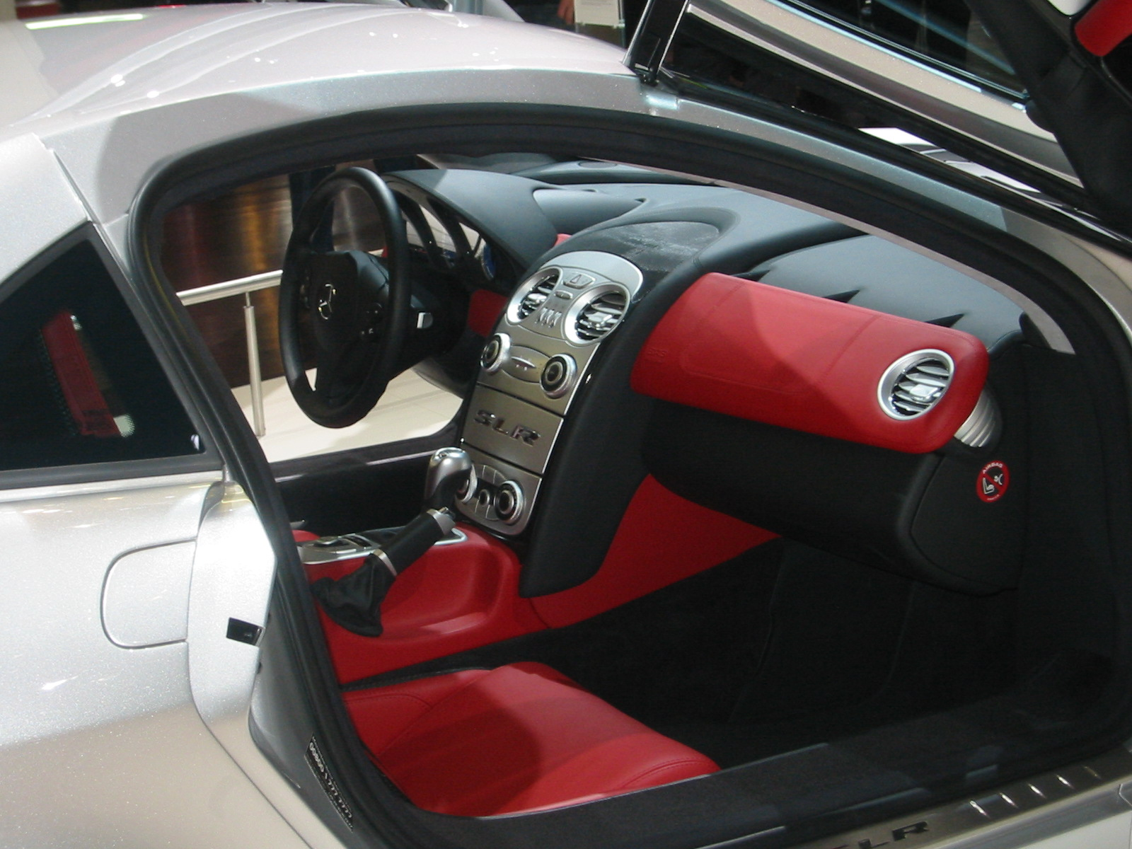 Mercedes-Benz C199 dashboard, car exhibition, Geneva.